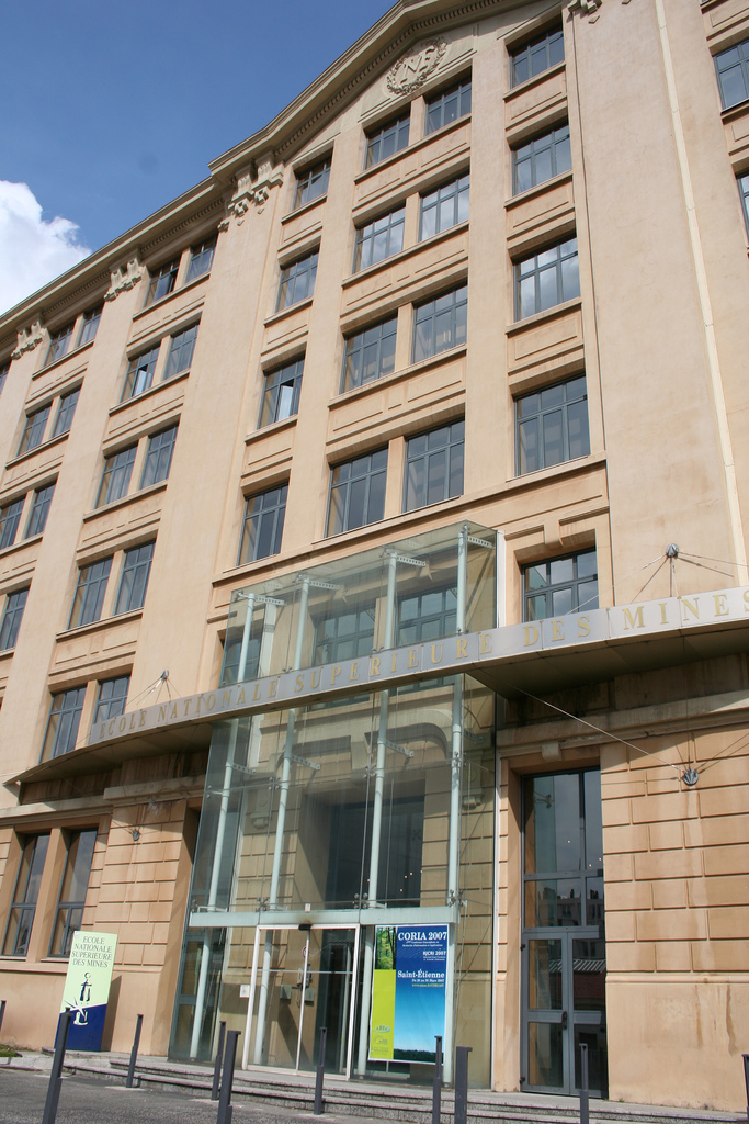 École nationale supérieure des mines de Saint-Étienne, espace Fauriel, France.